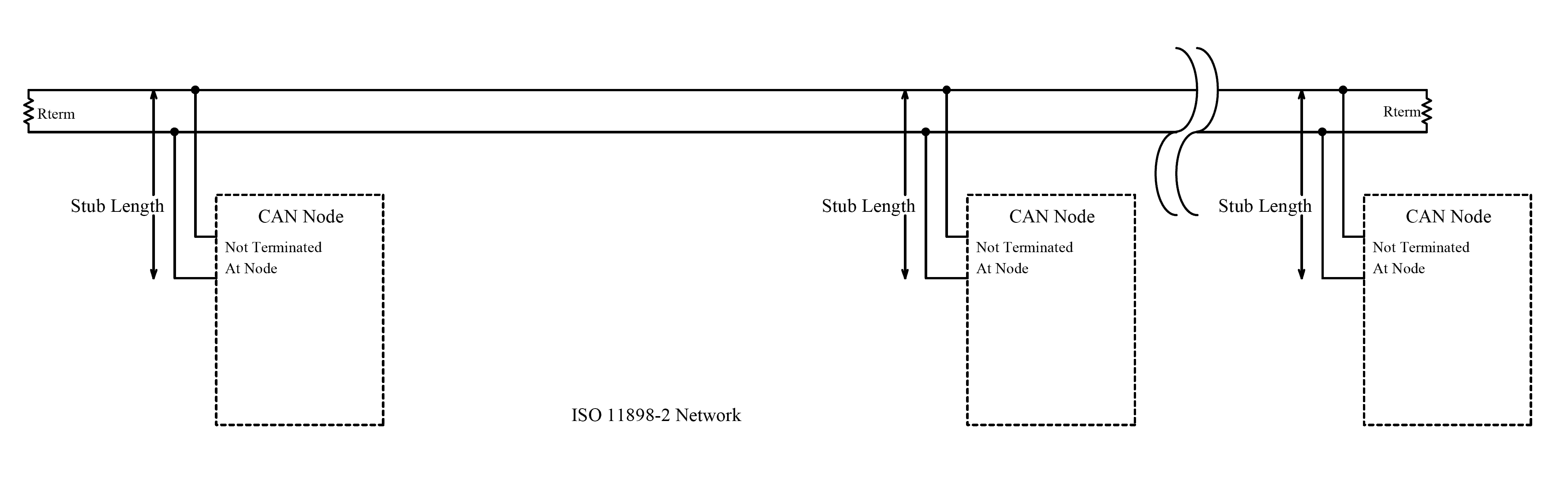 High Speed CAN Network. ISO 11898-2